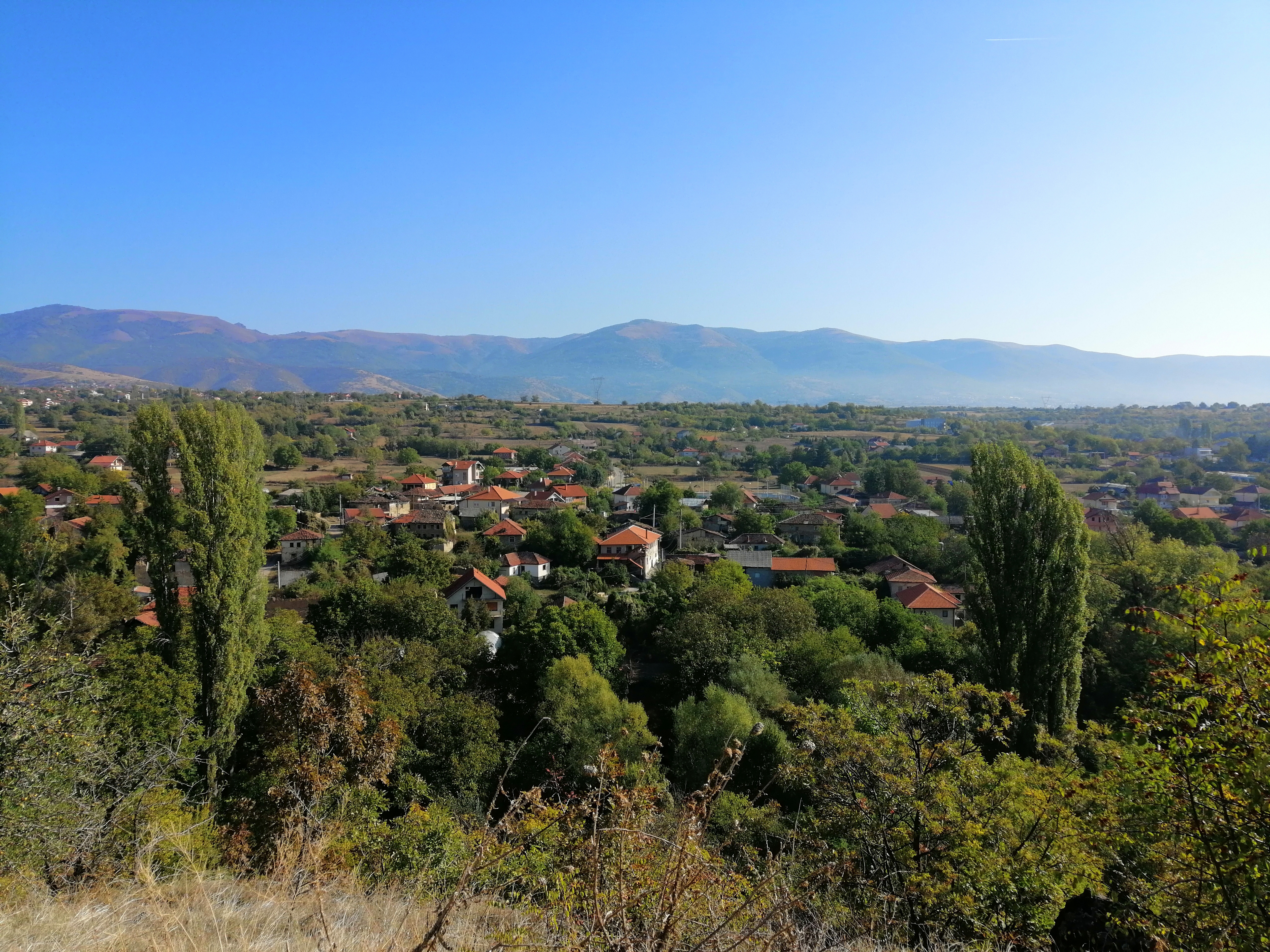 View of the village Gluvo